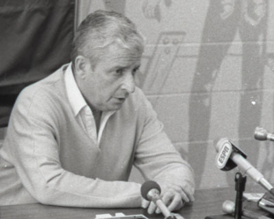 Art Modell, the former Cleveland Browns owner, giving a press conference around 1983. Cropped from the original image of Modell with coach Sam Rutigliano